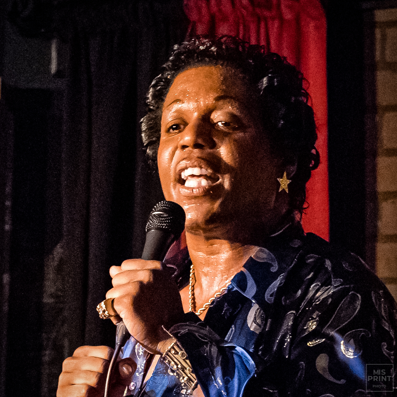 Fancy Ray McCloney - The Human Chocolate Orchid